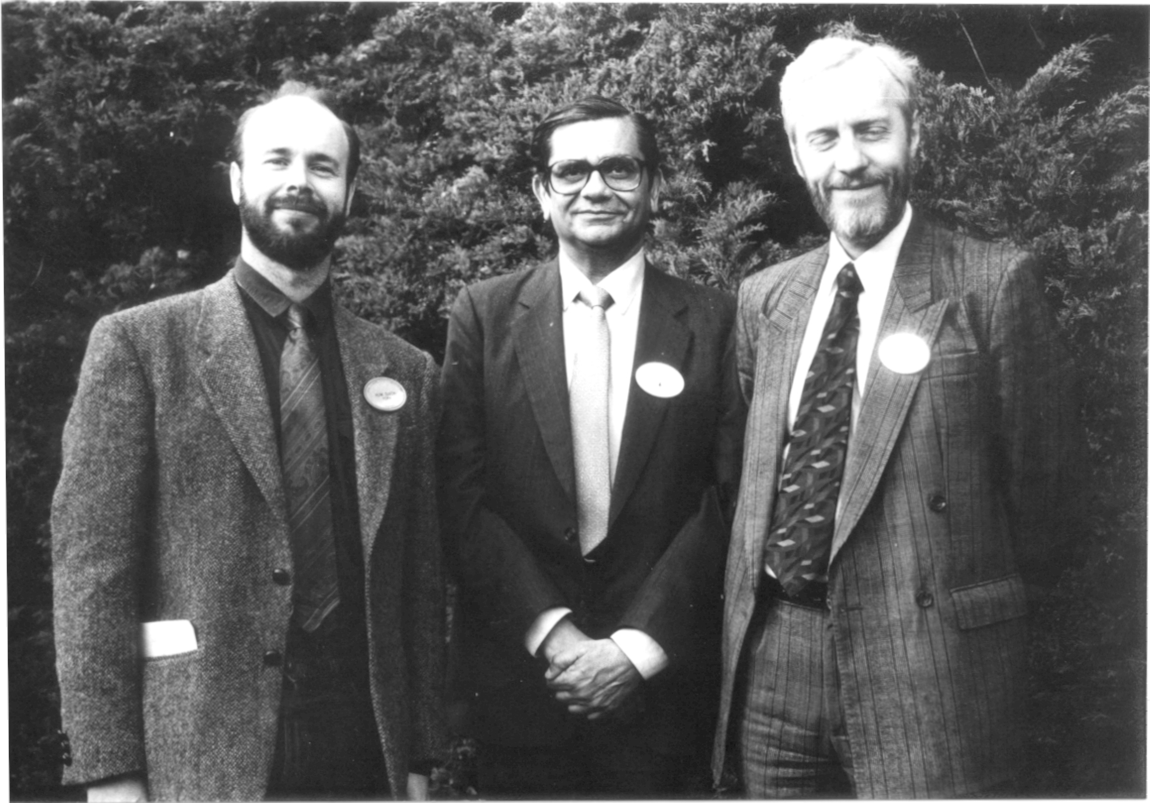 Huw Dixon in 1992, Chair of Royal Economic Society Conference, with Jagdish Bhagwati (invited speaker) and Sir David Hendry (President of RES). This shot was taken at the Royal Economic Society in 1992, University of York UK